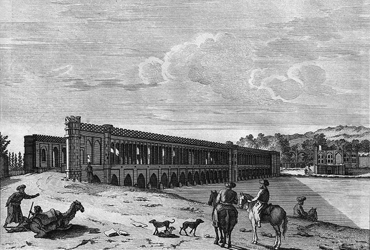 Si-o-se Pol by Cornelis de Bruyn